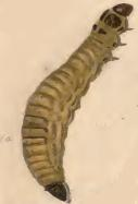 Stainton’s Natural History of the Tineina (1855–1873): Coleophora violacea